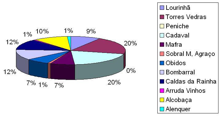 The Diagram of Pêra Rocha's production